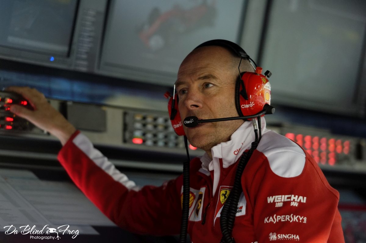 Jock Clear at the 2016 Bahrain Grand Prix